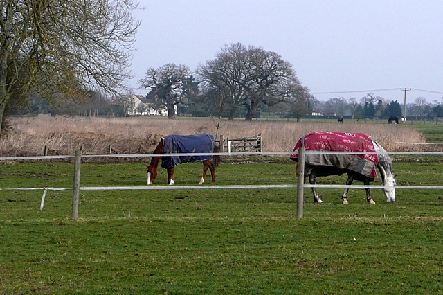 Animals at Home Farm This is part of Padworth College. There is a riding school here.